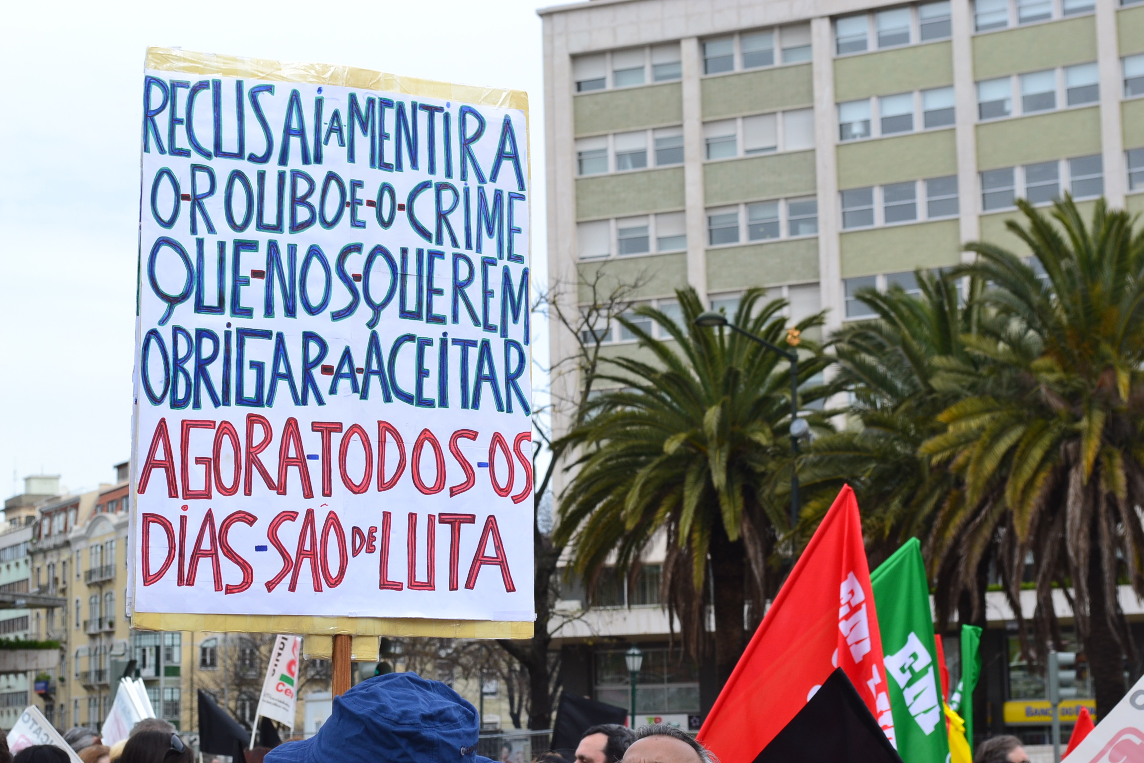 Demo of municipal council workers in Lisbon, Praça do Marquês de Pombal, 15 March 2013. The signs reads "Refuse the lie, the theft and crime that they want to force us to accept. Now all the days are days of struggle."